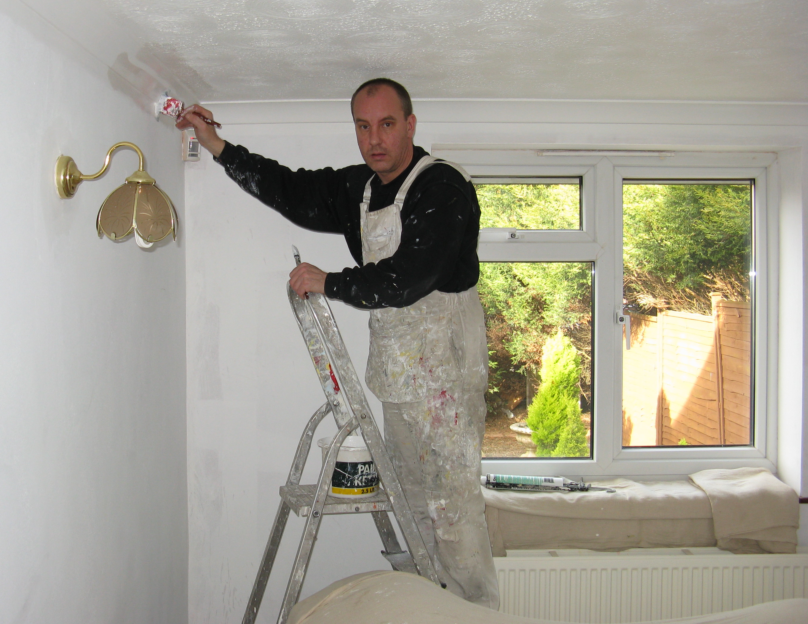 A painter decorates a room in a house in Yate, South Gloucestershire, England.